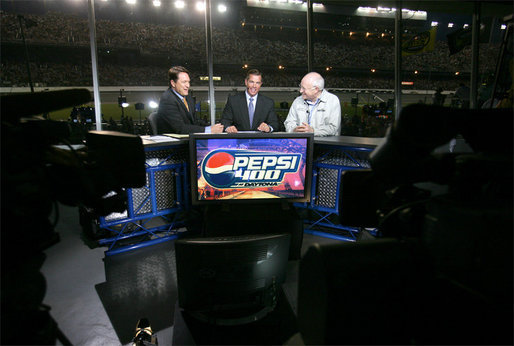 Vice President of the United States Dick Cheney (right) appears alongside Chris Myers (left) and Jeff Hammond (center) on the set of NASCAR on FOX at the 2006 Pepsi 400, a race contested under the auspices of the NASCAR Nextel Cup series at Daytona International Speedway.